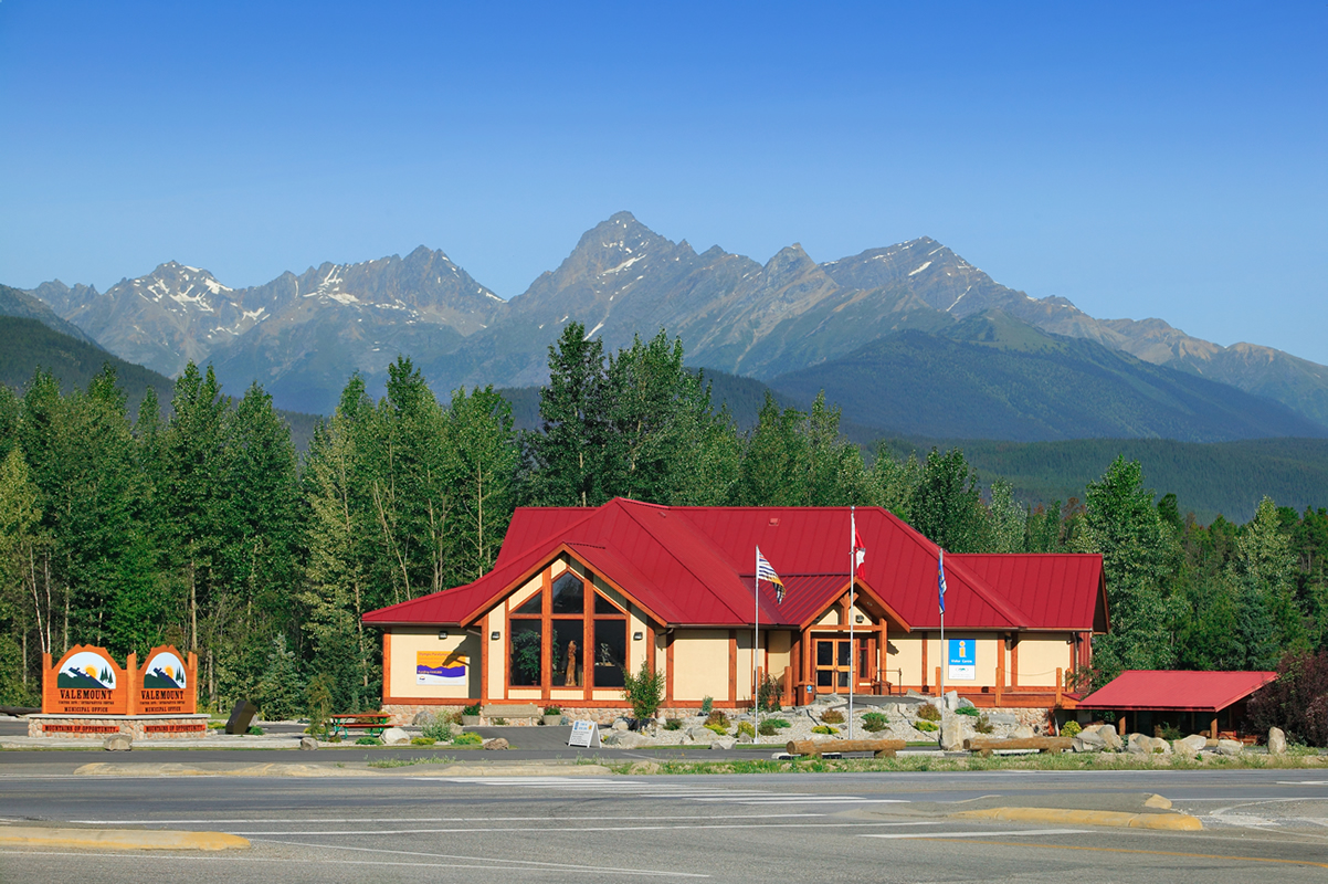 Valemount Visitor Information Centre with West Ridge and Premier Range